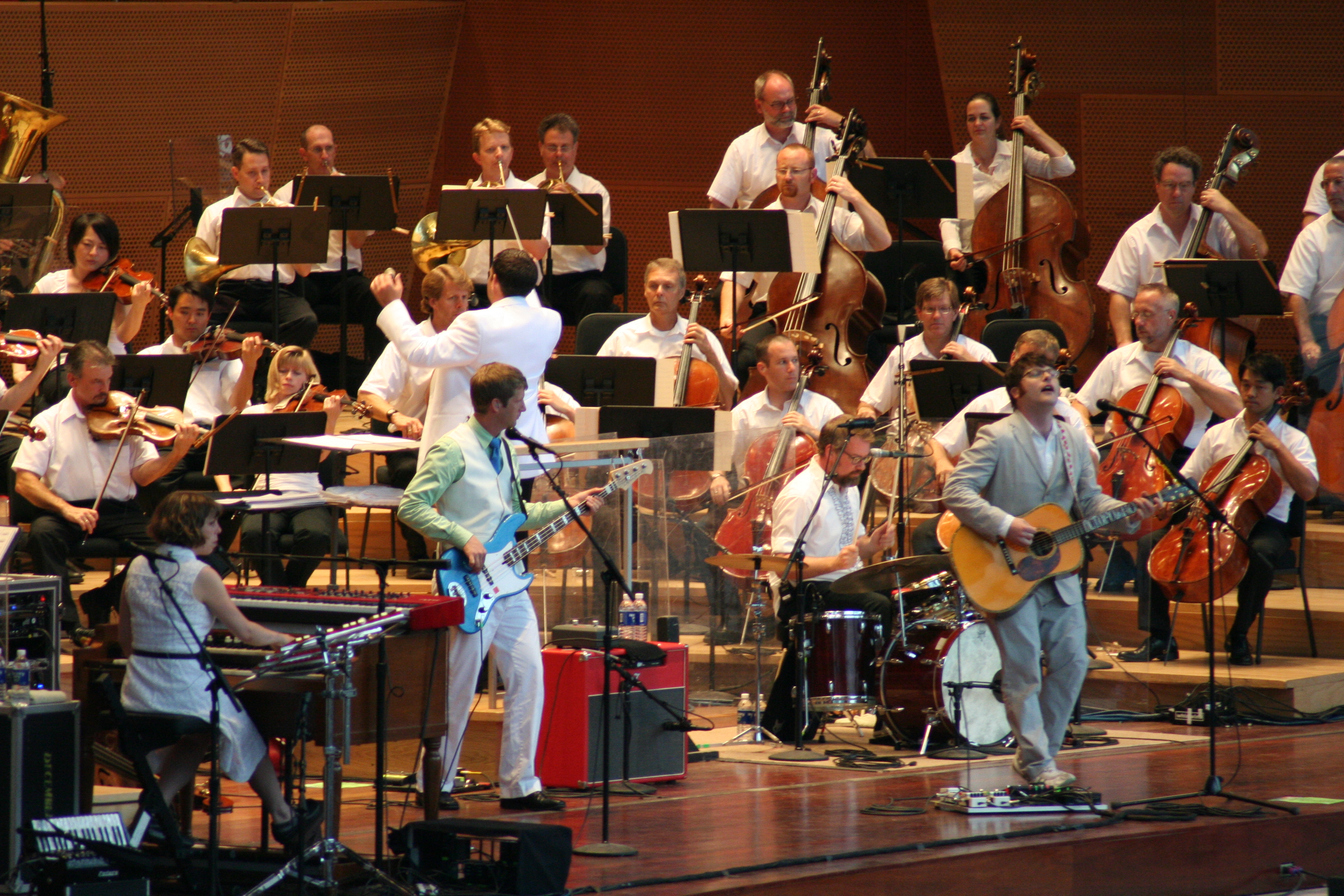 The Decemberists